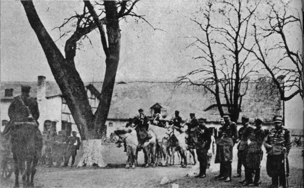 1 cavalry brigade LWP. March 1945 Photo of Raymond Kuliński "first and last".